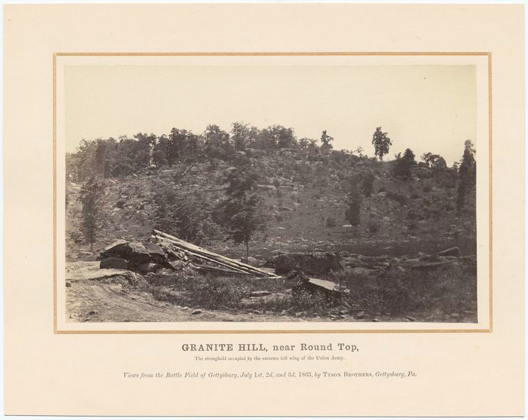 Digital ID: 1150079. Views from the battle field of Gettysburg, July 1st, 2d, and 3d, 1863 : Granite Hill, near Round Top, : The stronghold occupied [sic] by the extreme left wing of the Union Army.. United States Sanitary Commission -- Creator. Tyson Brothers -- Photographer. Date depicted: c. 1863 Source: United States Sanitary Commission records, 1861-1872, bulk (1861-1865). / Photographs, prints and drawings / Photographs and drawings (more info) Repository: The New York Public Library. Manuscripts and Archives Division. See more information about this image and others at NYPL Digital Gallery. Persistent URL: Rights Info: No known copyright restrictions; may be subject to third party rights (for more information, click here)